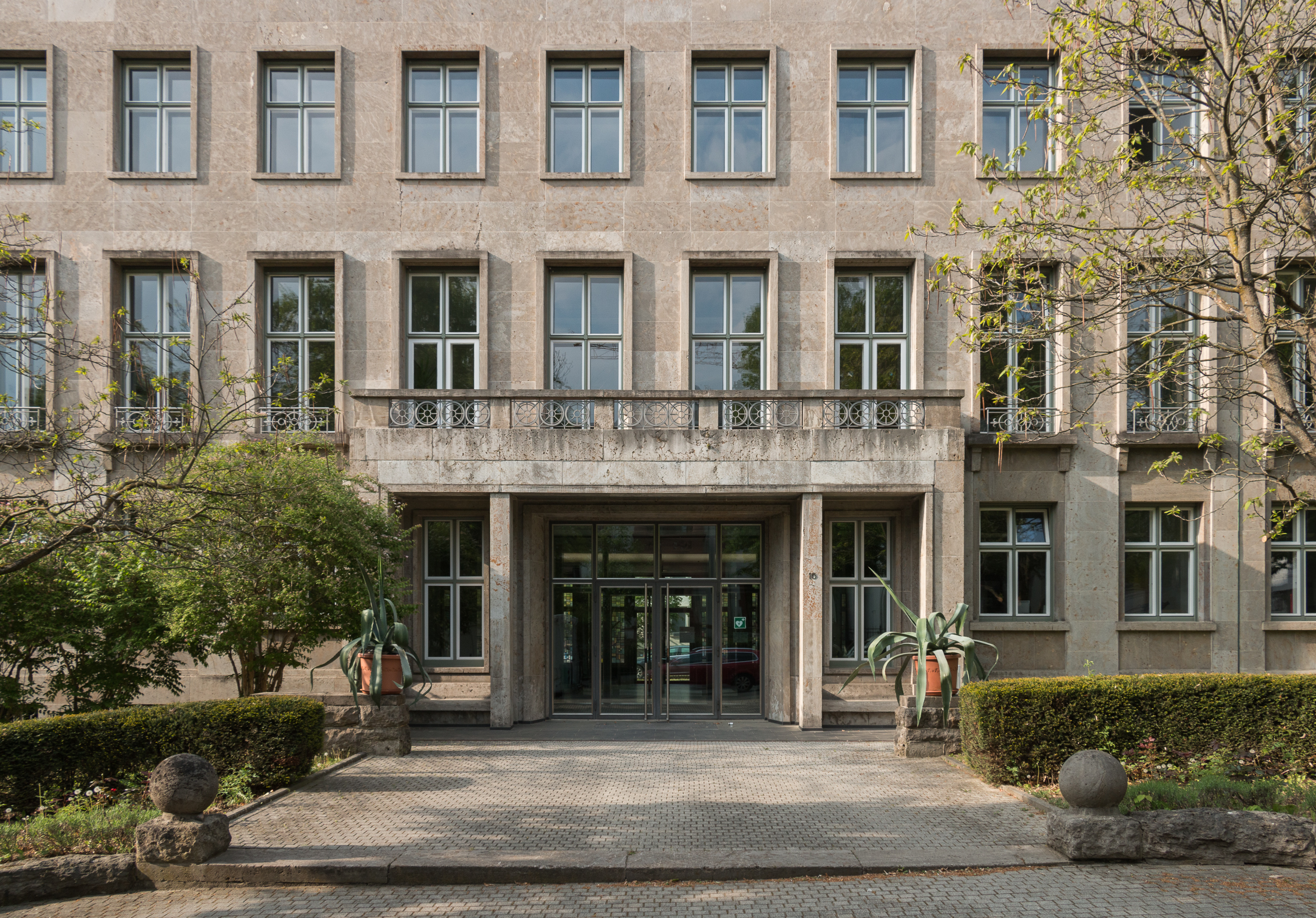 The former headquarters of the Didier-Company, Lessingstraße 16-18, Wiesbaden